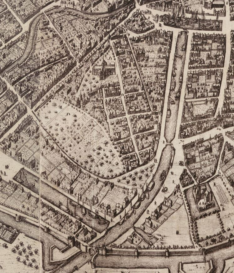 Port of Brussels in 1640, cropped from the 1640 map of Martin de Tailly, Bruxella nobilissima Brabantiae civitas